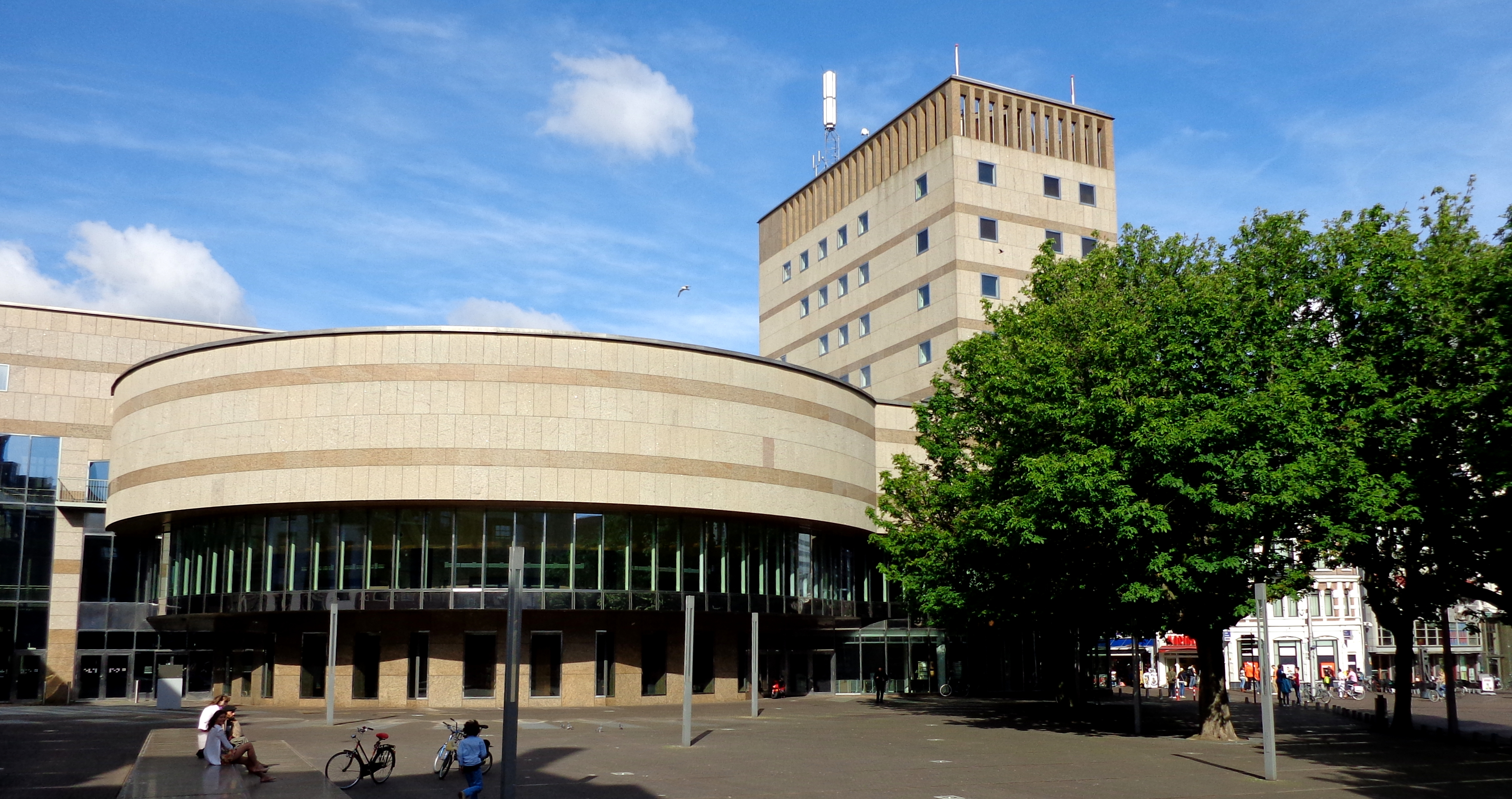 The Hague car-free city-centre. The Hague, in the Netherlands, has a huge and wide car-free city-centre. As a result, one may see lots of bicycles, pedestrians, some trams, people getting around and buying in the local commerce. This type of urban policies provide citizens safety, humanity, air quality, much less noise, and quality of life.